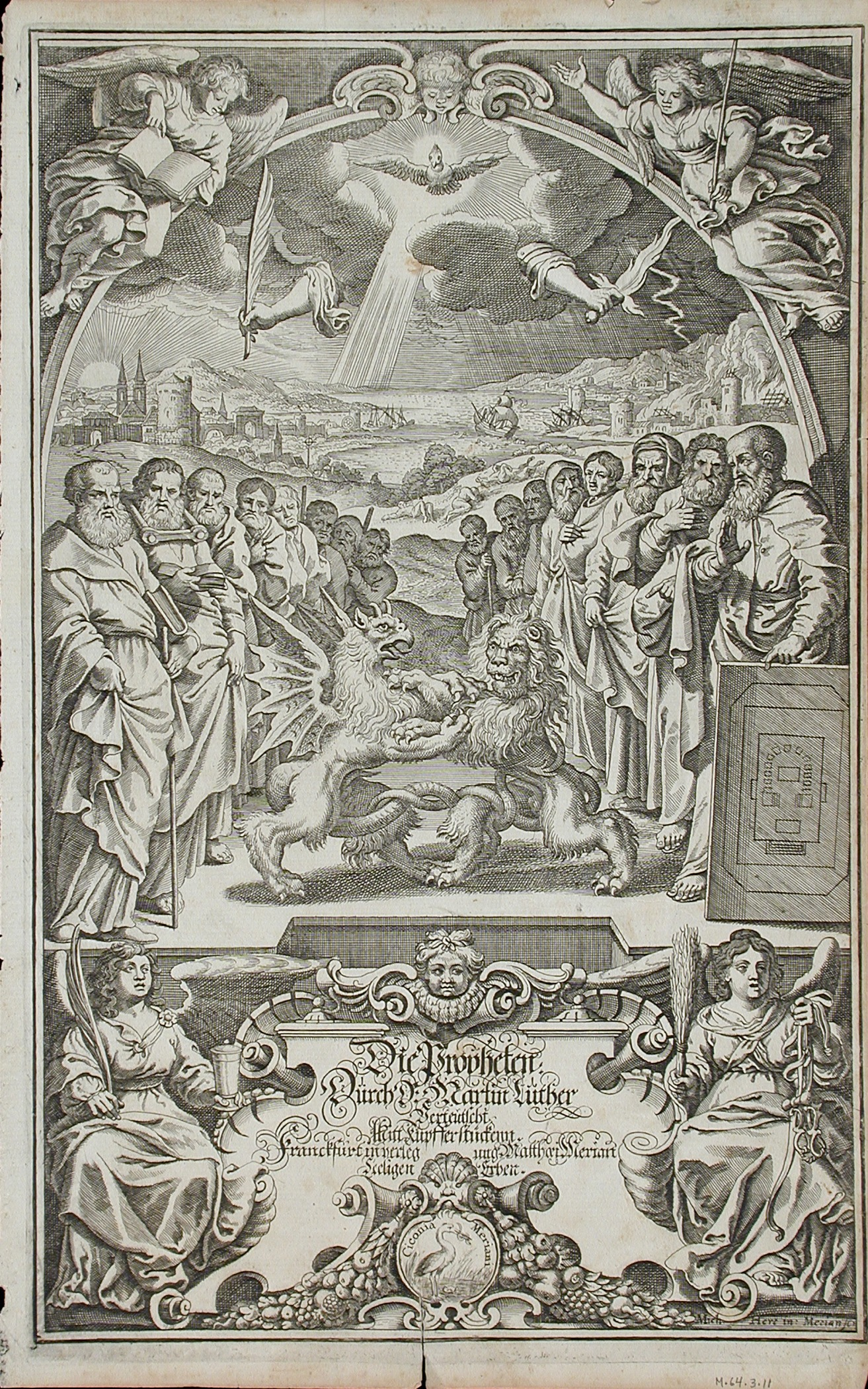 Germany, 17th century Book: Martin Luther Bible Prints; etchings Etching Gift of Abbey Rents (M.64.3.11) Prints and Drawings